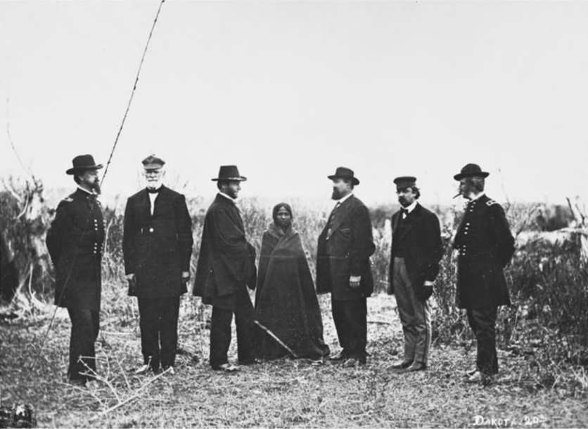 Original caption: Members of the Peace Commission pose with an unidentified Indian woman. From left to right: Generals Terry, Harney and Sherman; Commissioner Taylor, Samual Tappan, and General Augur